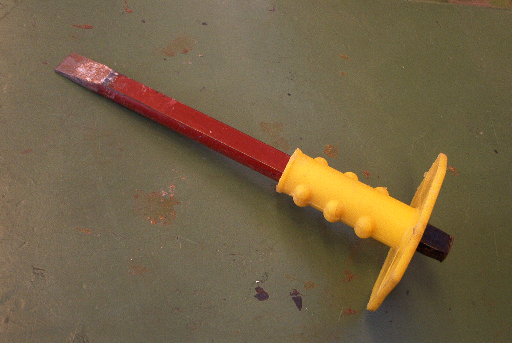 cold chisel with handle